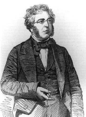 A portrait of George Parker Bidder from the Illustrated London News